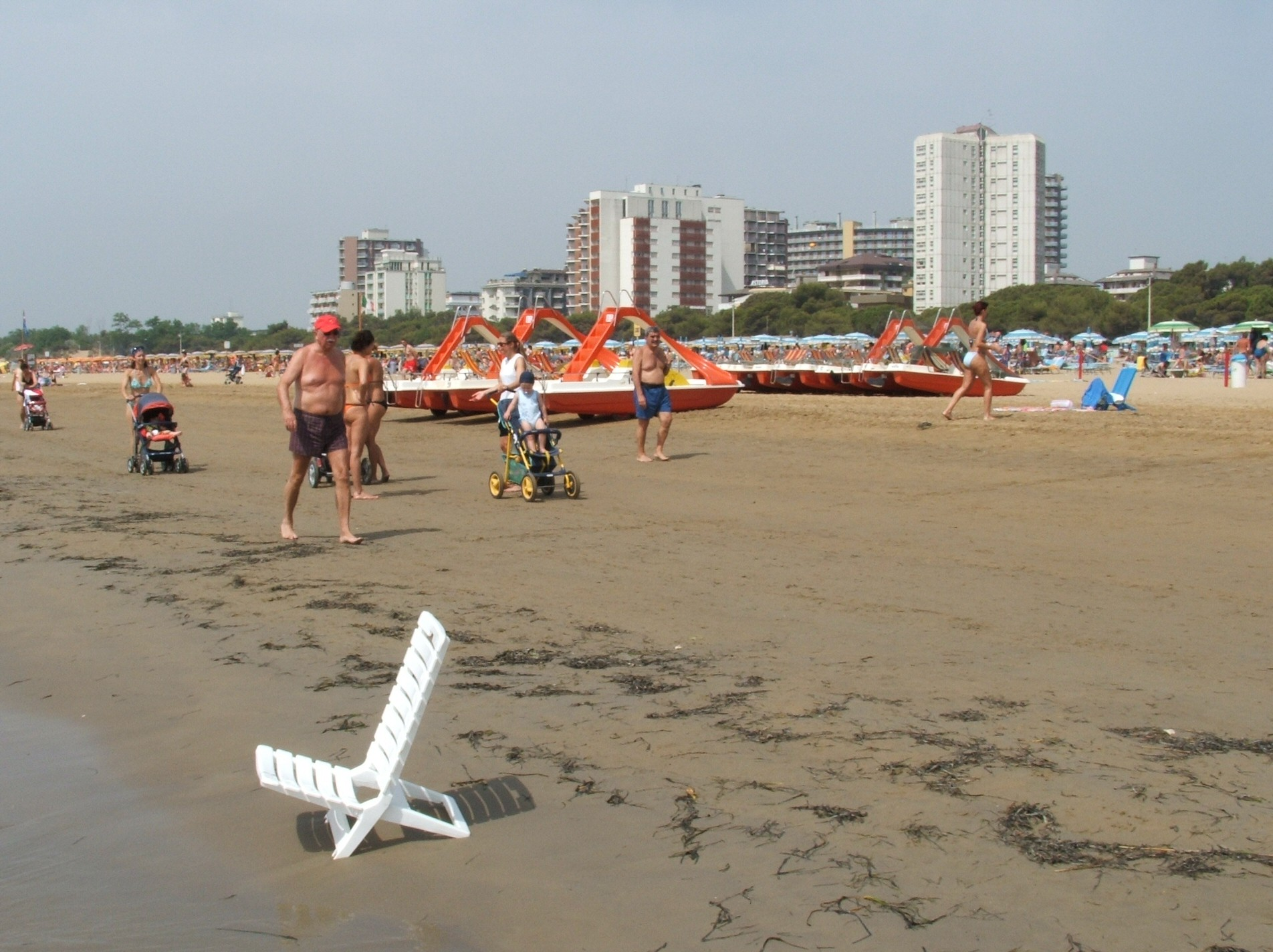 Lignano Sabbiadoro (UD), Italy - beach